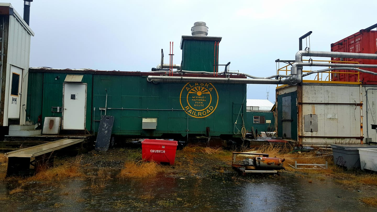 A repurposed Alaska Railroad car, Fishdock Road, Homer Spit, Homer, Alaska